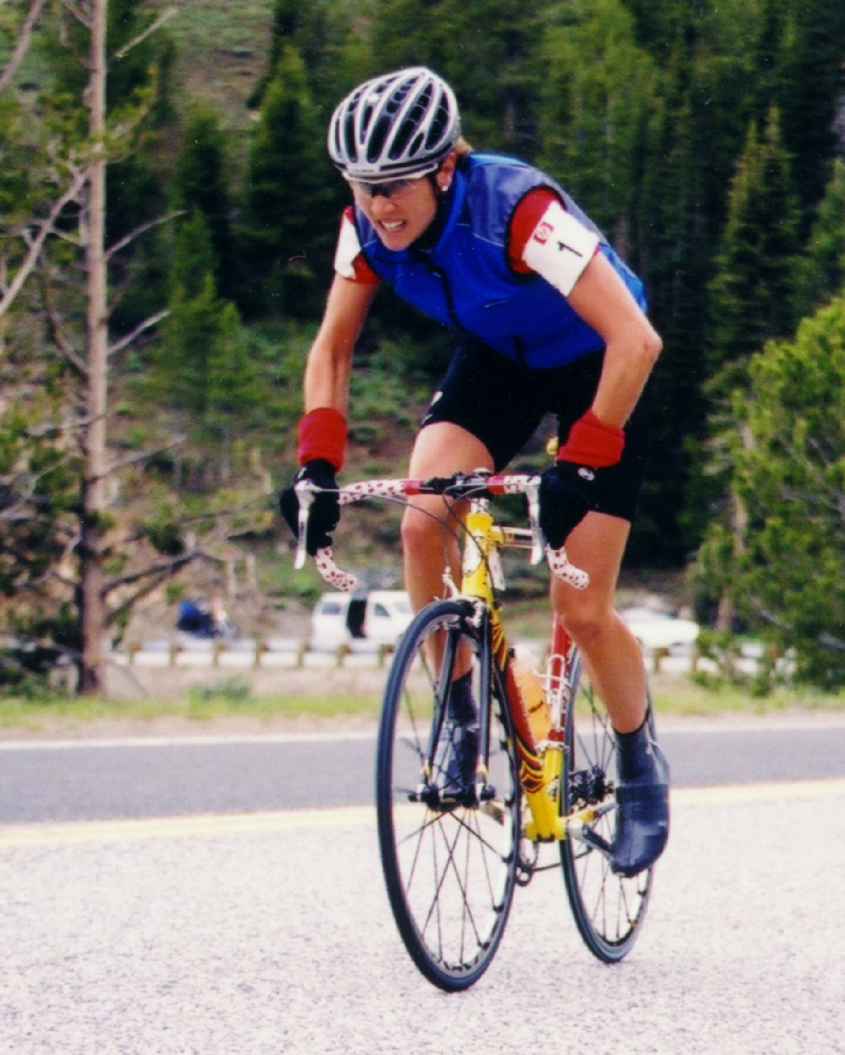 Lyne Bessette, wearing the number 1 emblematic of being the defending race champion, powers her way up the hill towards Galena Pass during the Stanley to Ketchum stage of the 2002 Women's Challenge.